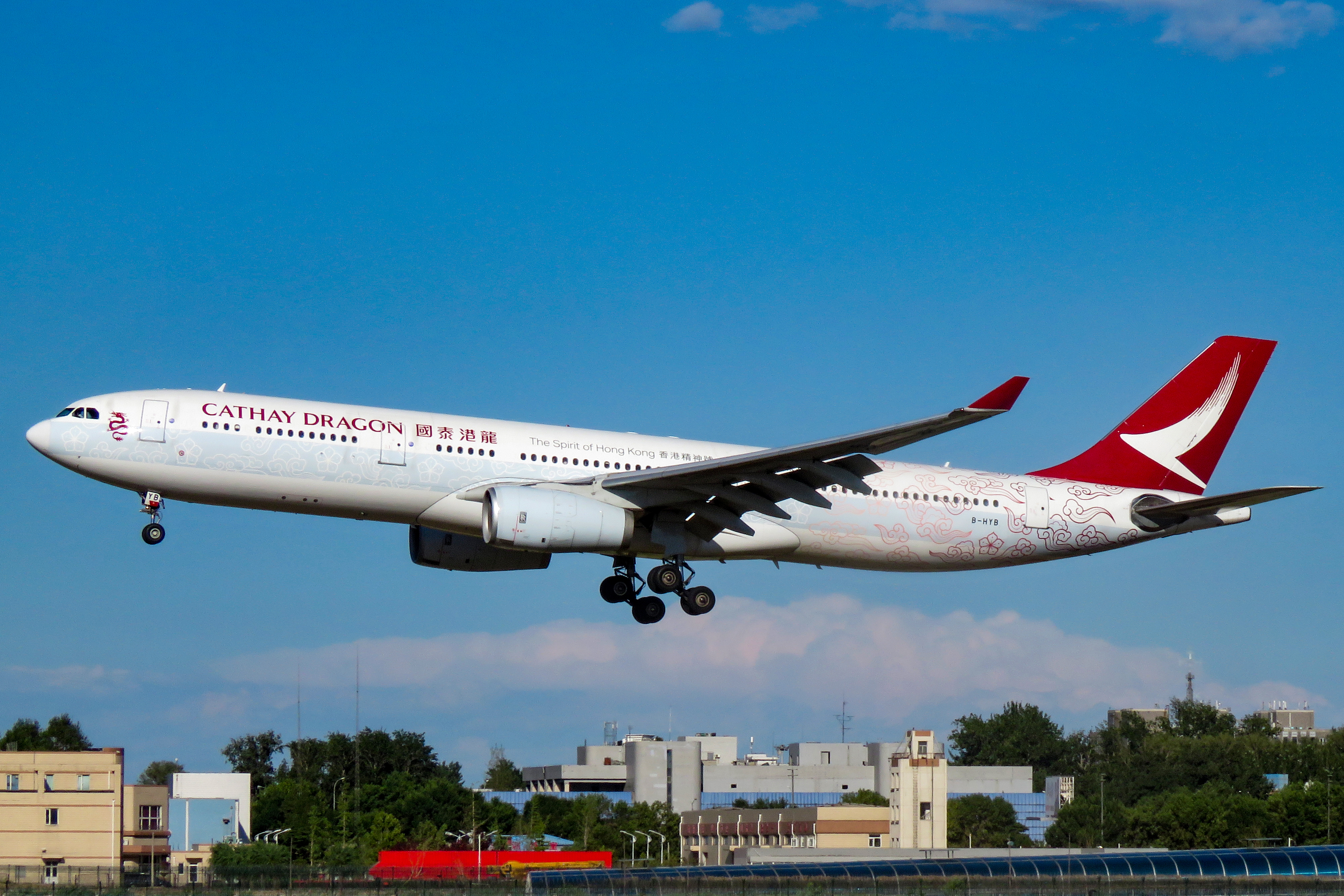 Dragon 992 from Hong Kong, landing 36L exceptionally before the 22th anniversary of the returning.